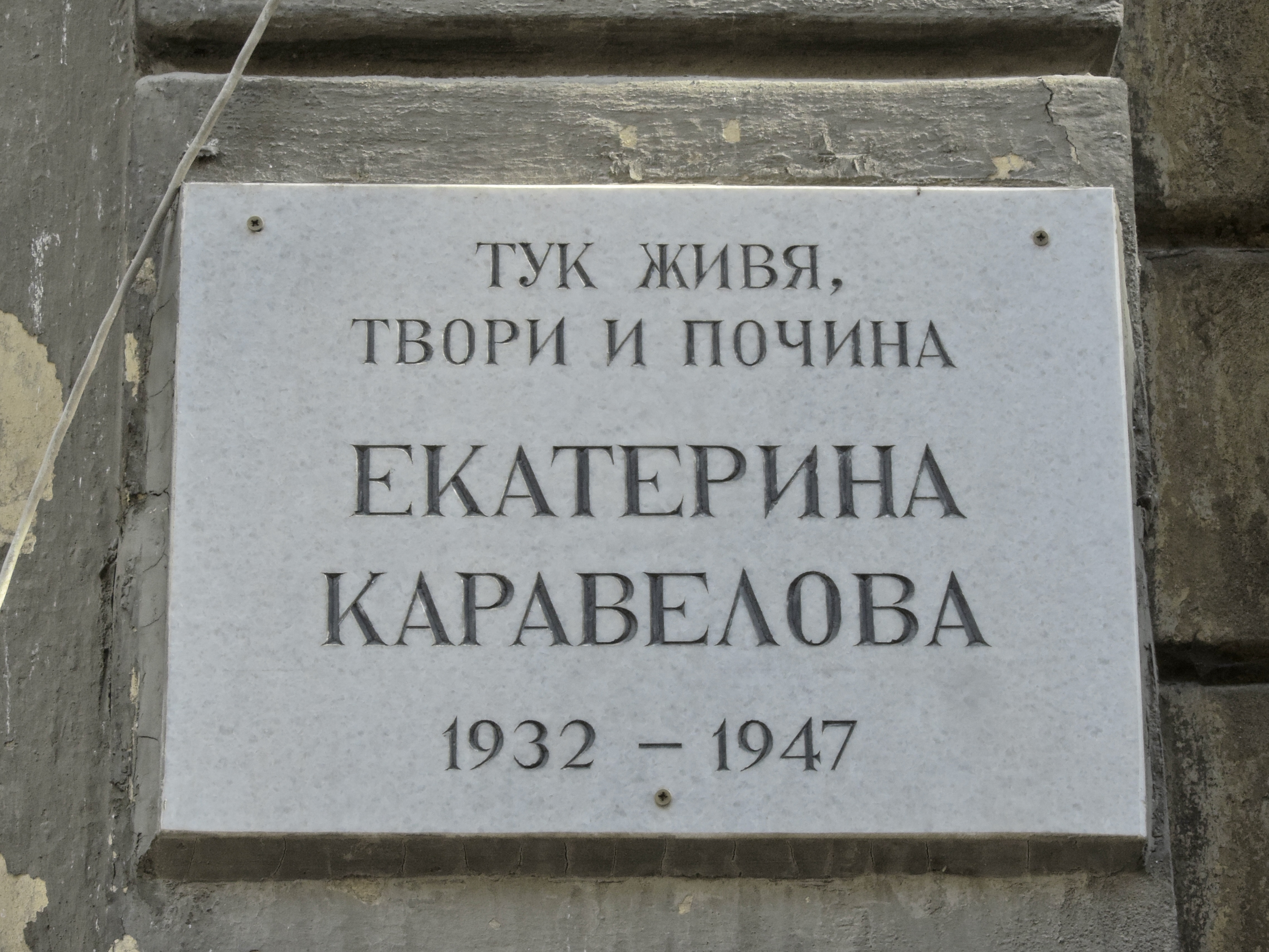 The memorial plaque on the house in which Ekaterina Karavelova lived from 1932 until her death in 1947. The house is located on 24 "6th September" Str, Sofia, Bulgaria